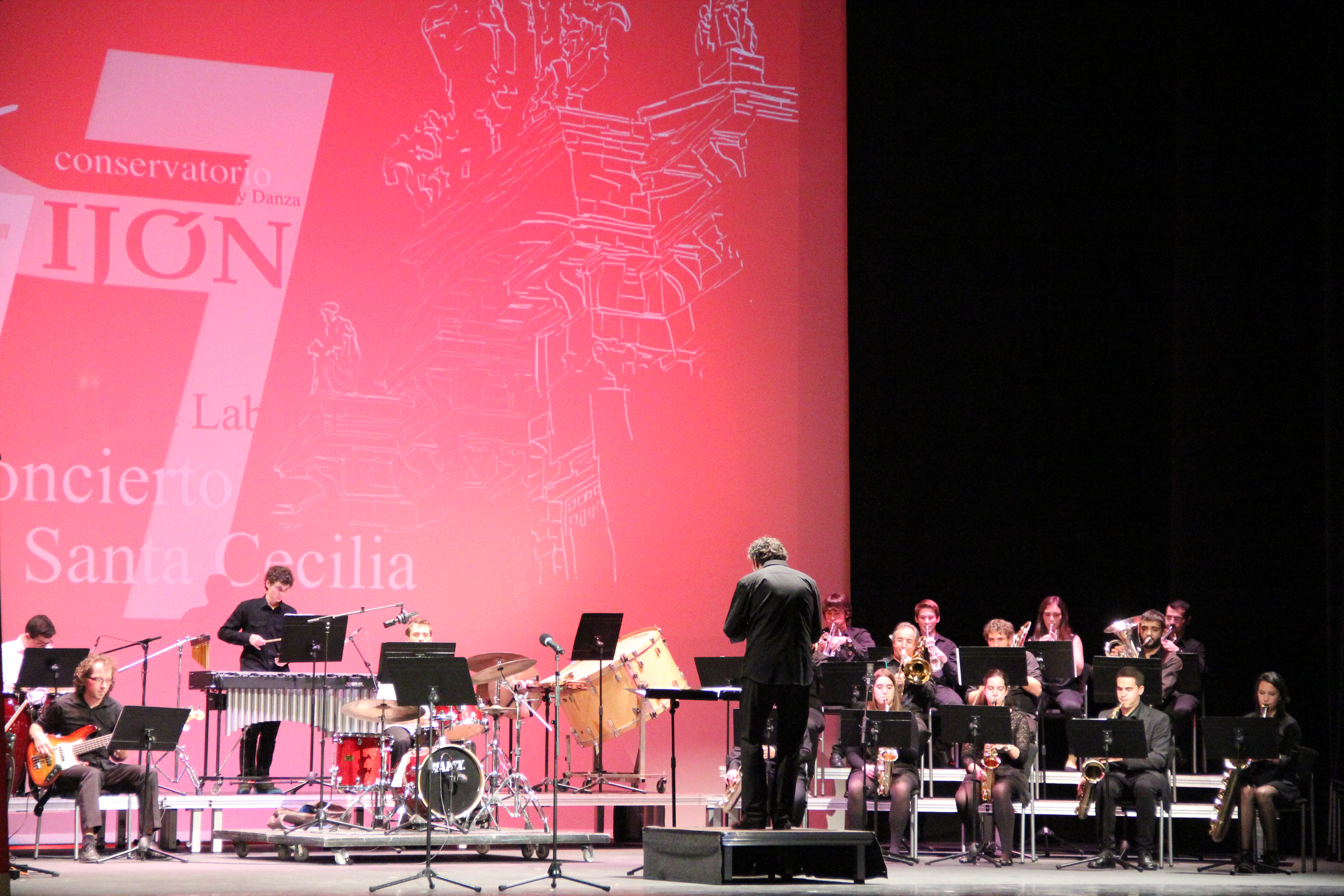 Photo of the Little Band during the concert of St. Cecilia